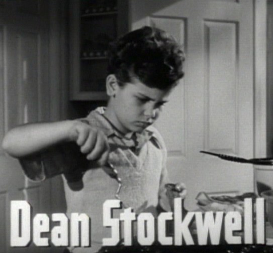 Cropped screenshot of Dean Stockwell from the trailer for the film Gentleman's Agreement.